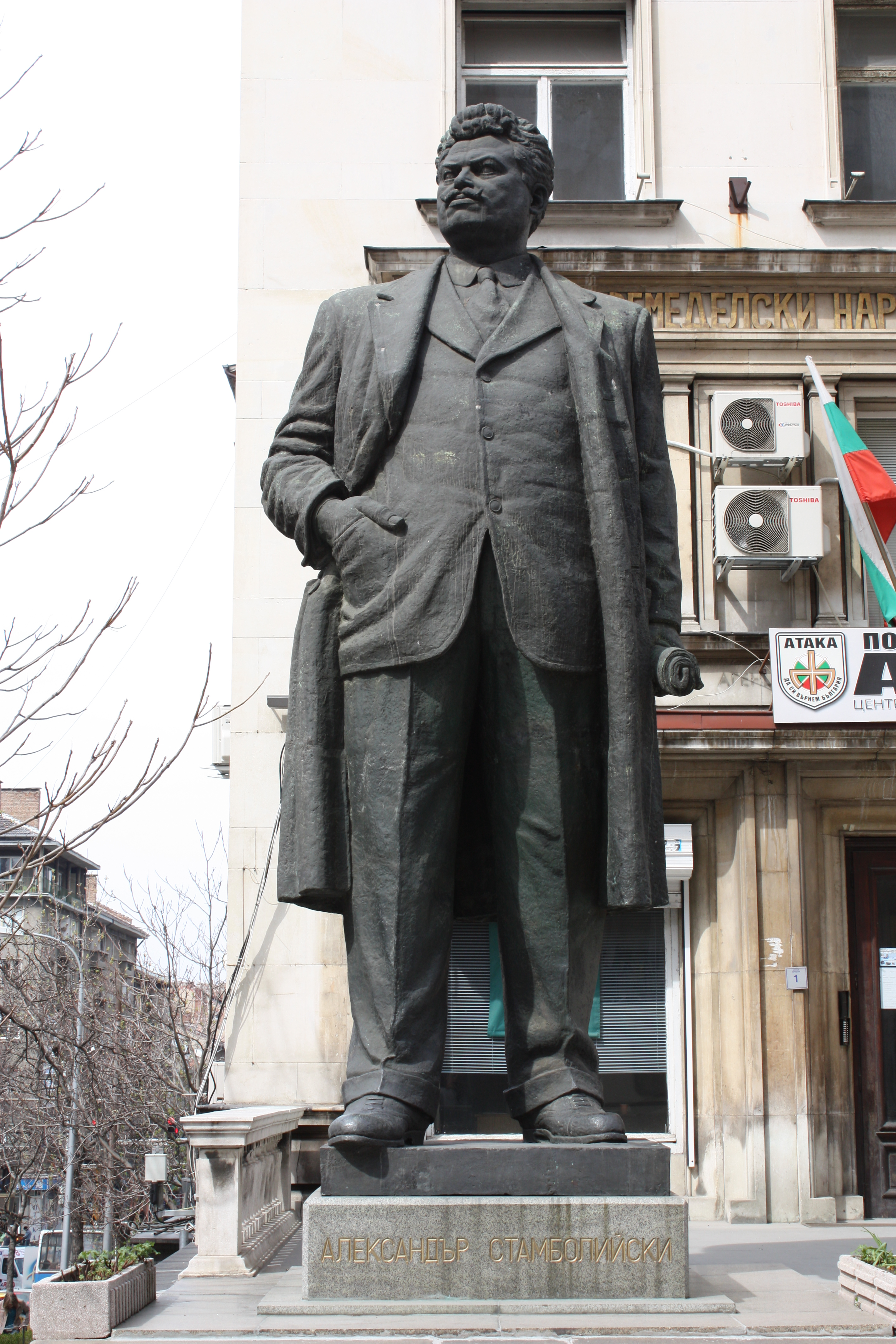 National Opera and Ballet, Sofia, Bulgarien